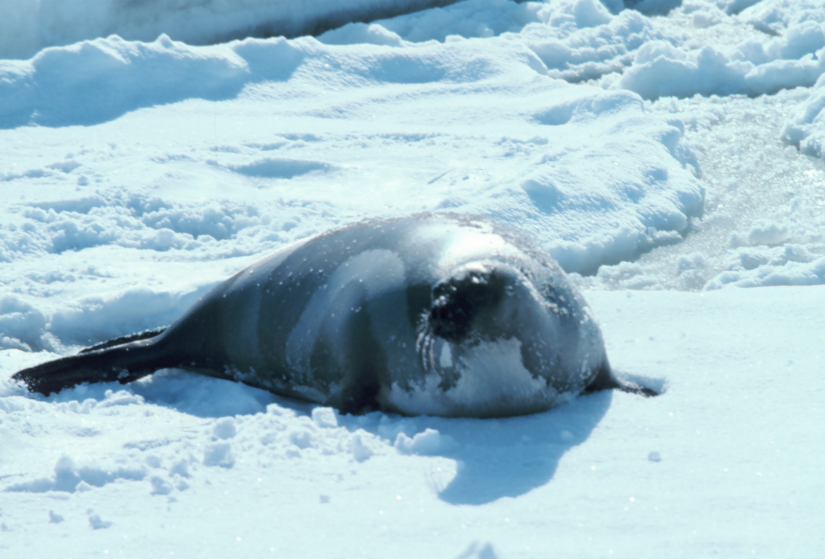 Ribbon Seal (Histriophoca fasciata). Alaska, Bering Sea.